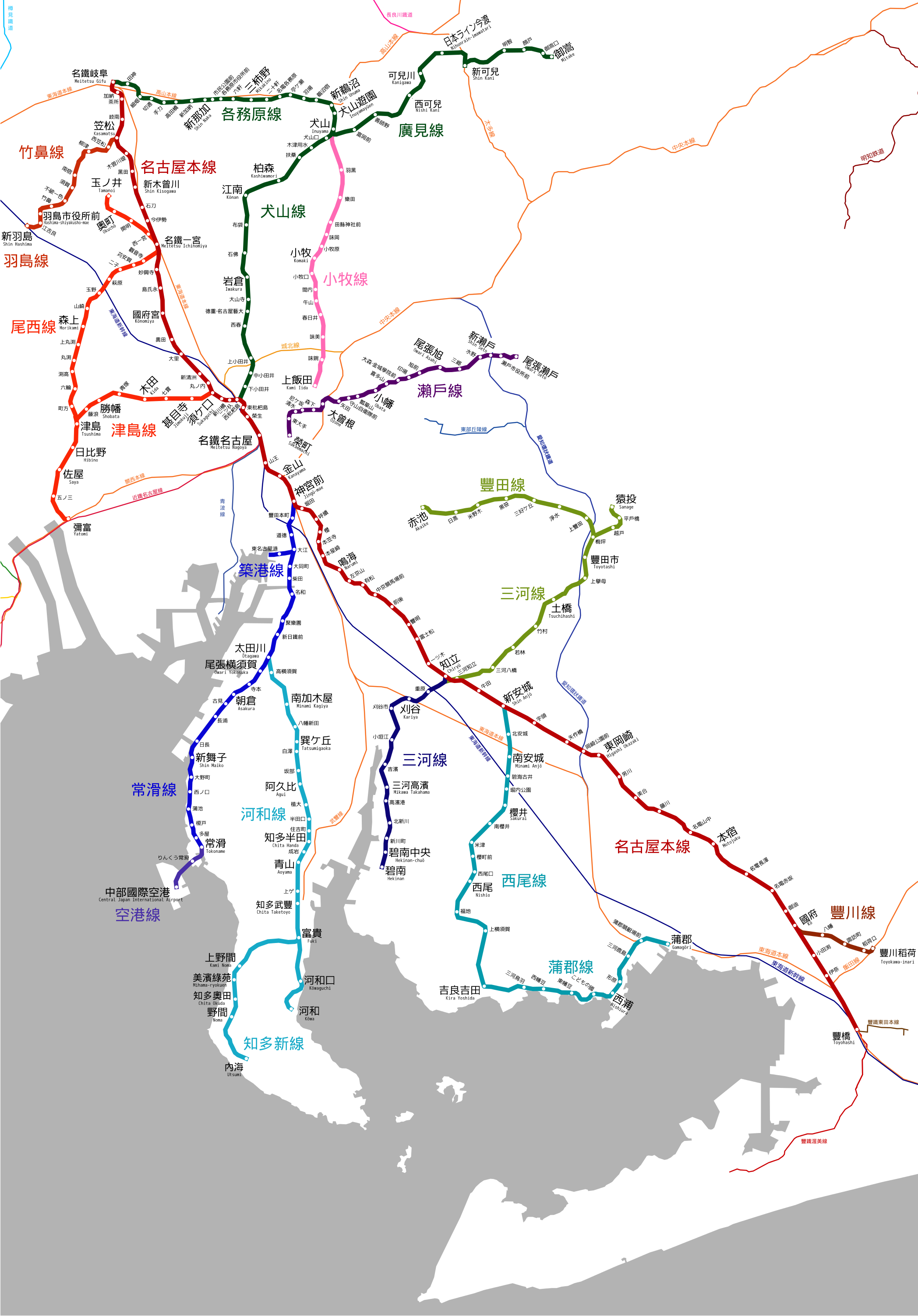 Nagoya Railroad Linemap(chinese)